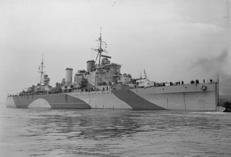 British heavy cruiser HMS LONDON under tow on the Tyne.